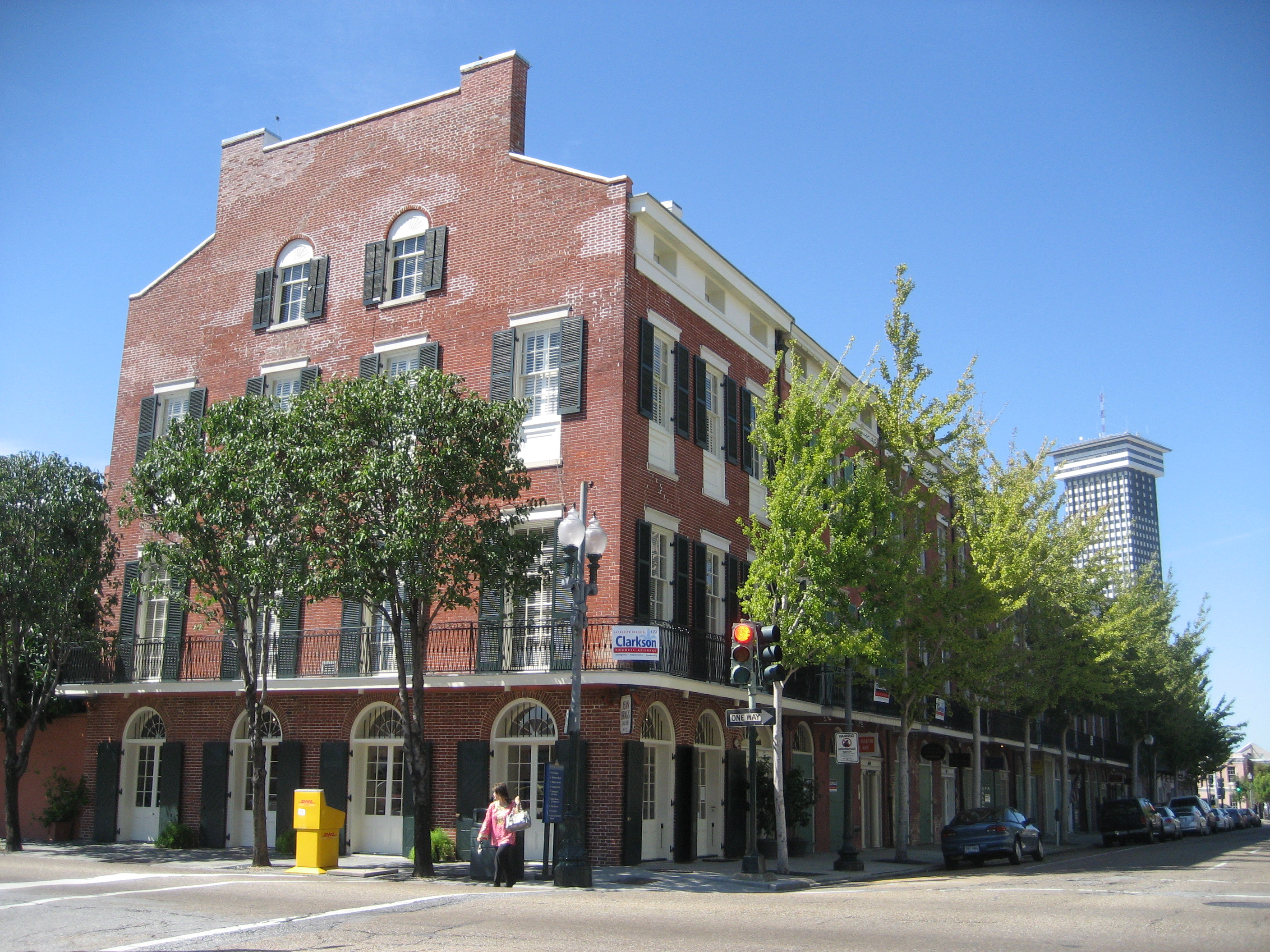 New Orleans Central Business District. View of "Julia Row", a surviving block long row of 1830s townhouses with commerical space on the ground floors. The high-rise seen in the distance is Plaza Tower.